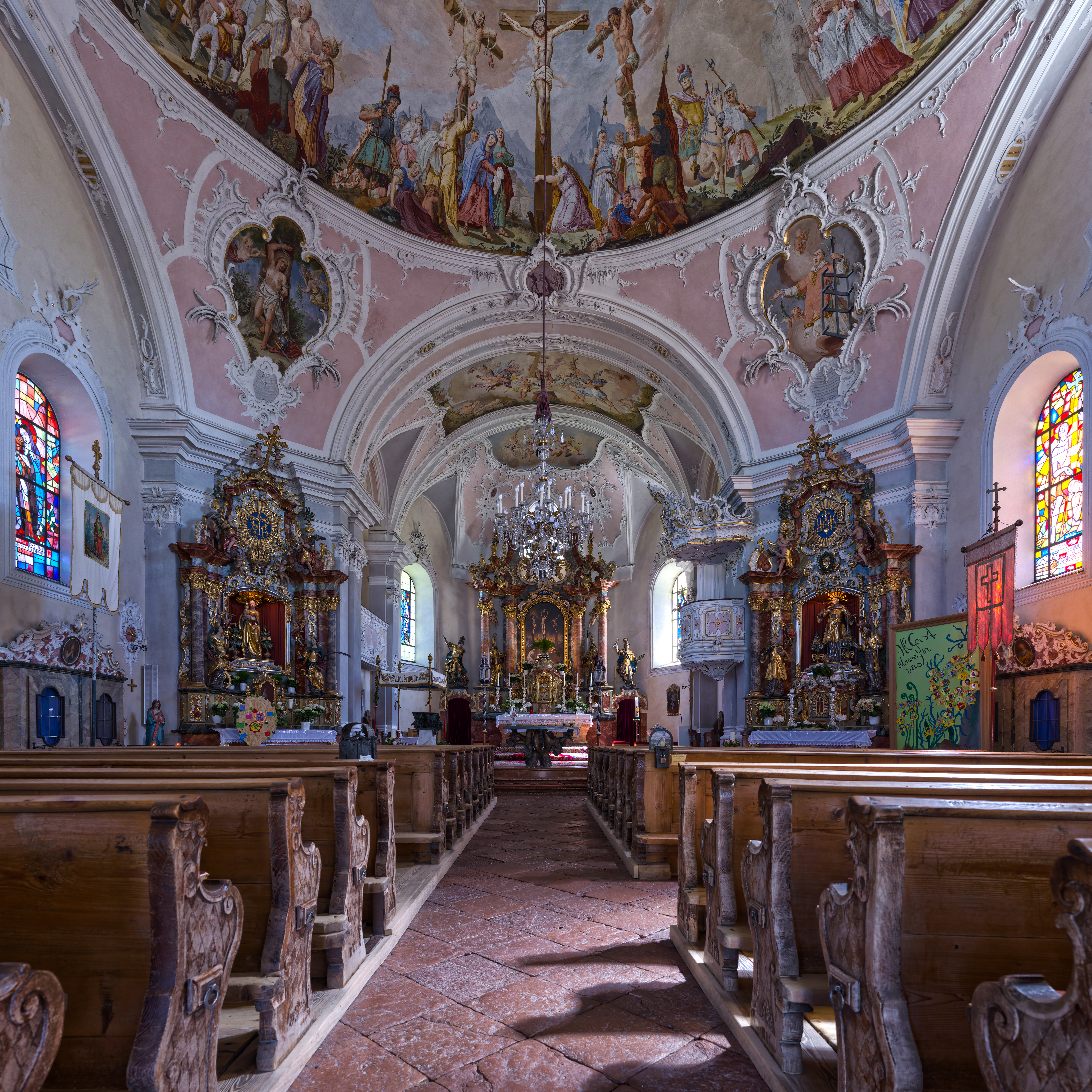 Interior of the roman-catholic parish church in Going am Wilden Kaiser (Tyrol, Austria).